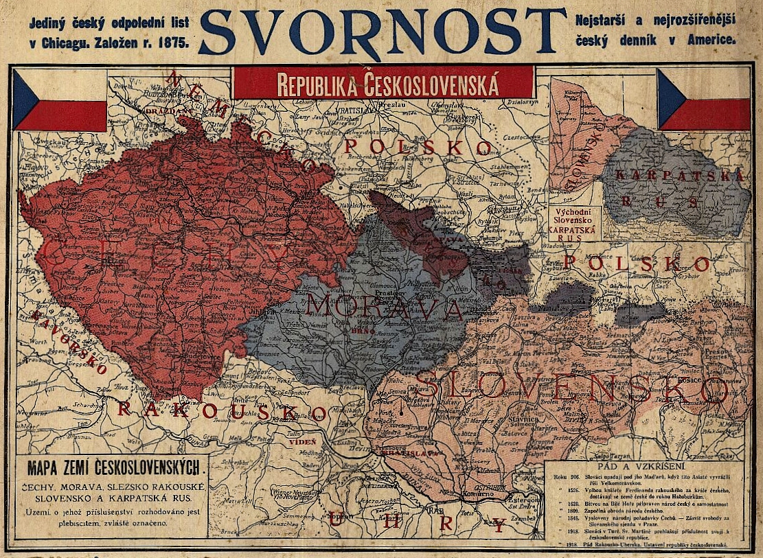 Map of the Czechoslovak Lands (Bohemia, Moravia, Austrian Silesia, Slovakia, Carpathian Ruthenia) in 1919.